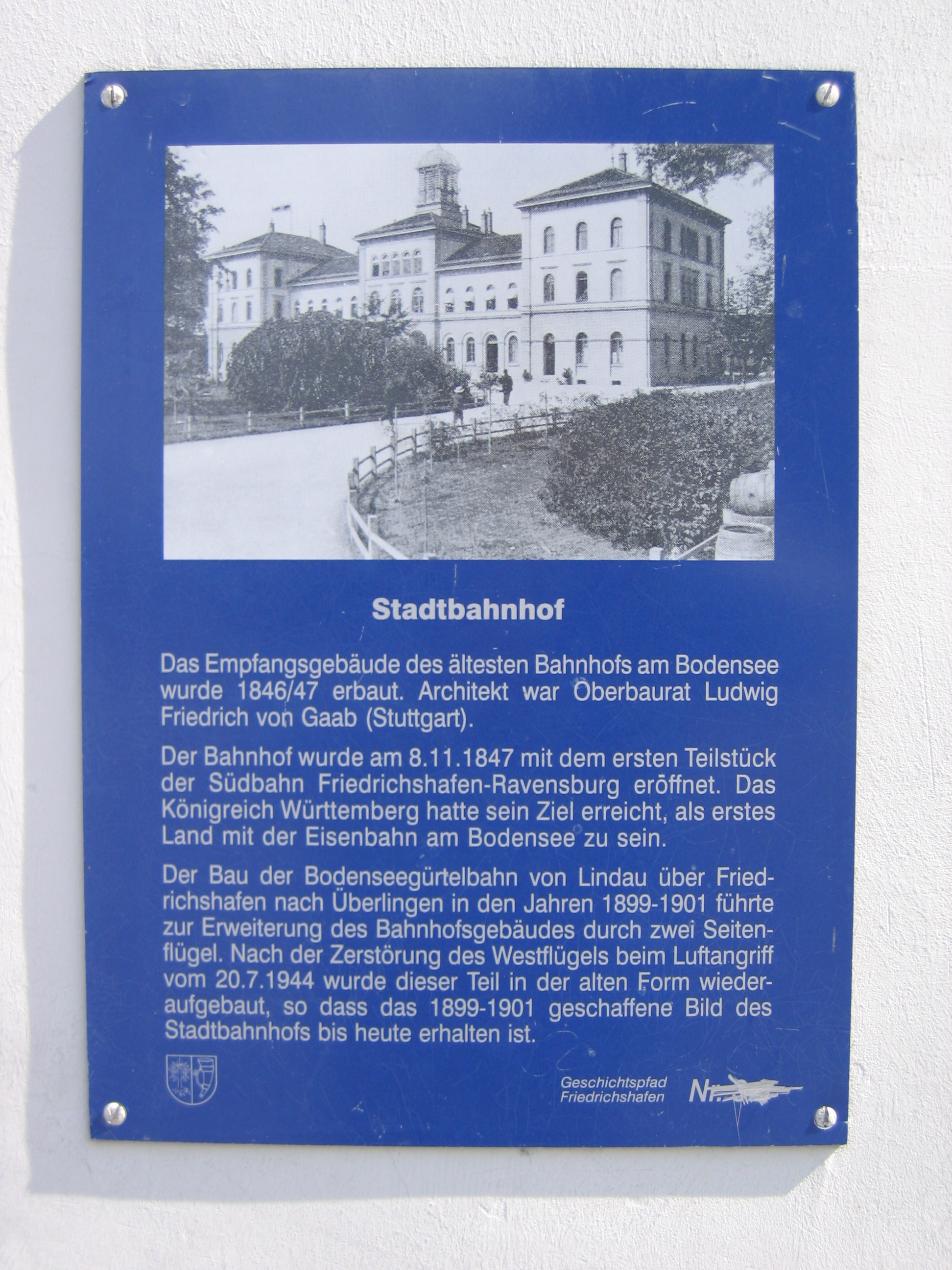 Germany - Baden-Württemberg - Bodenseekreis - Friedrichshafen: central station, information by 'Geschichtspfad Friedrichshafen'